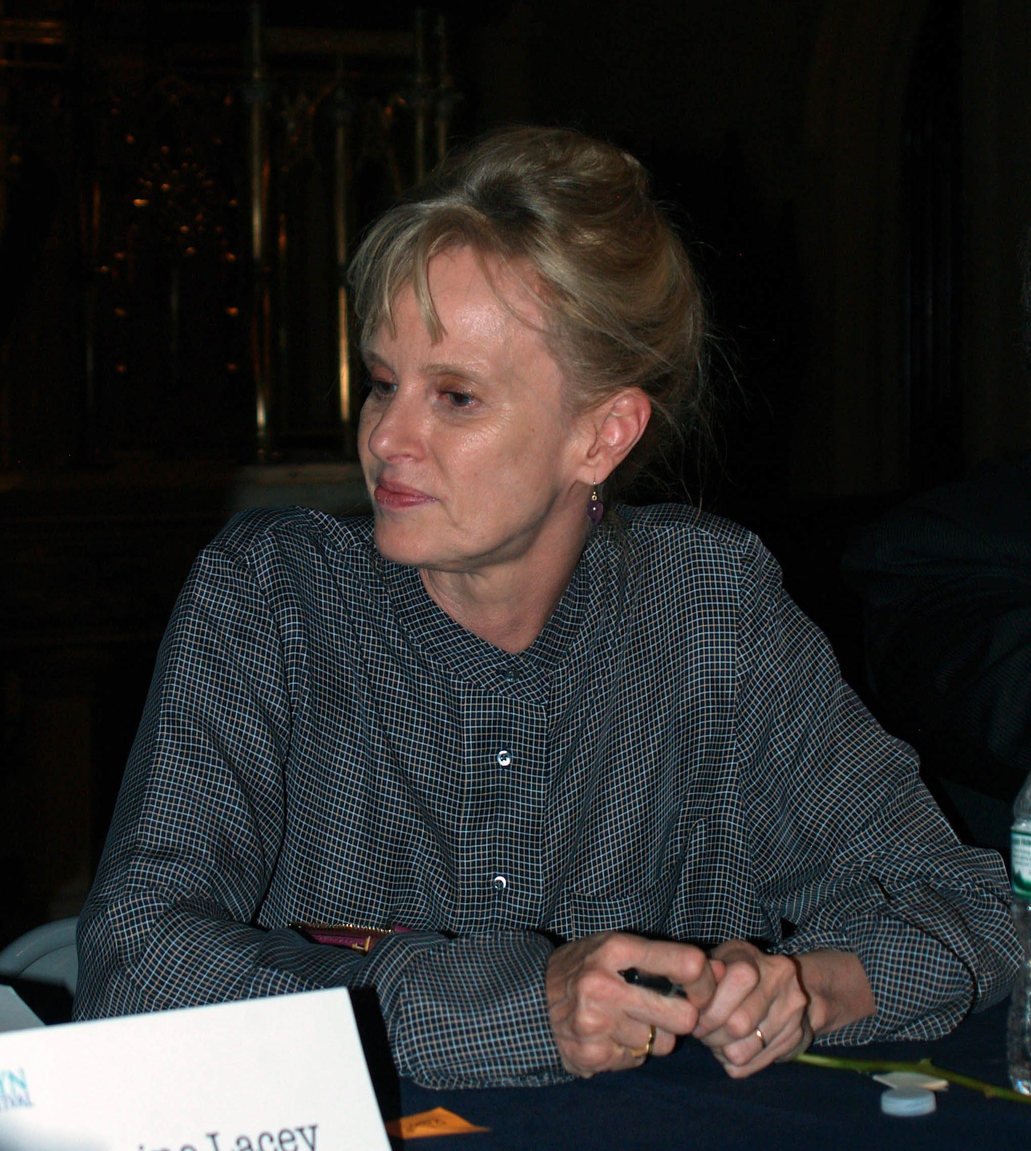 Novelist Siri Hustvedt following "The Writer's Life" panel at the the 2014 Brooklyn Book Festival. This photo was created by Luigi Novi. It is not in the public domain, and use of this file outside of the licensing terms is a copyright violation.